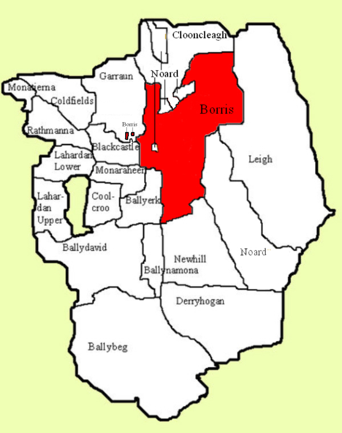 Improved map of Borris townland in Borrisleigh civil parish in North Tipperary